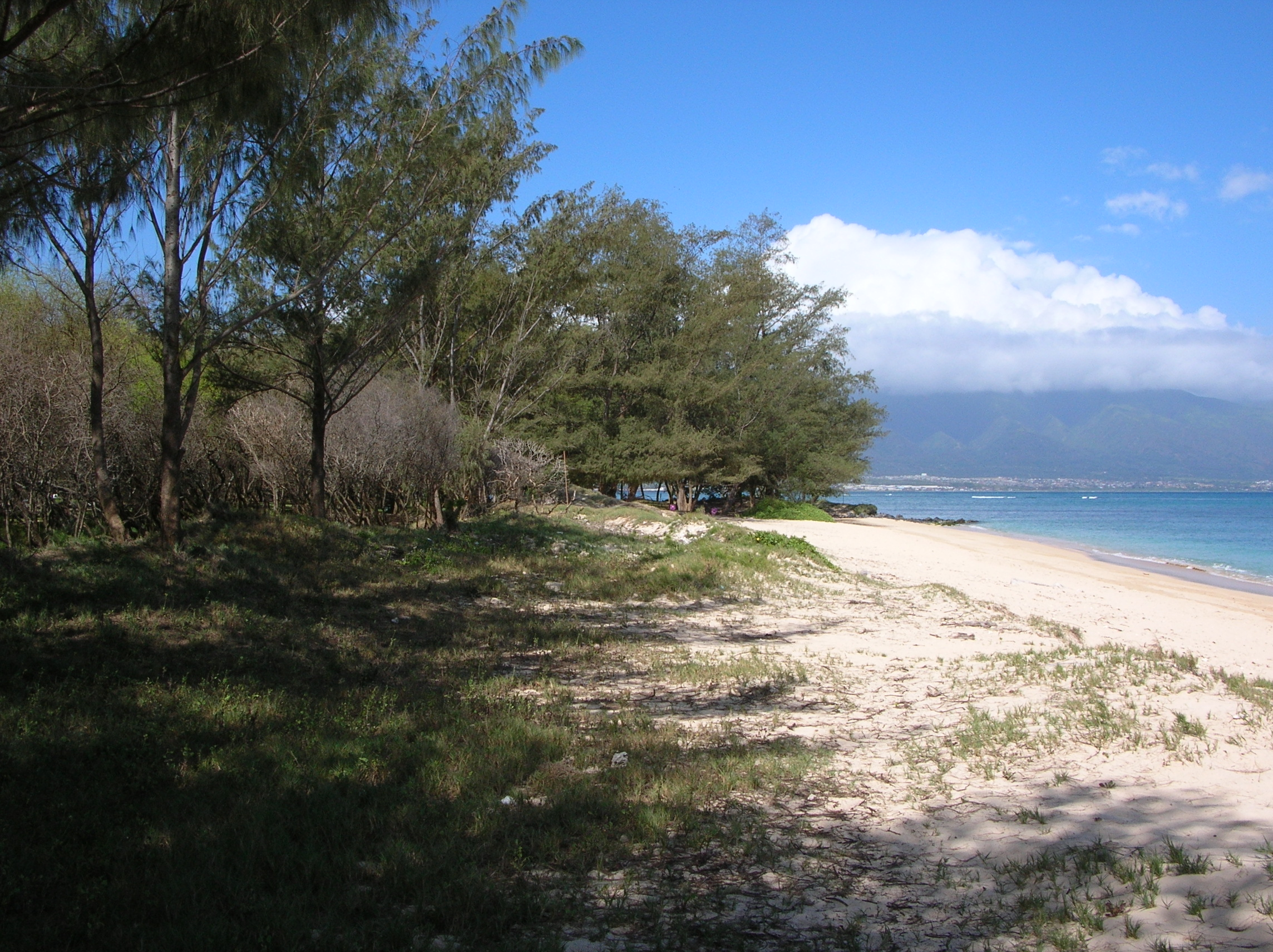 Casuarina equisetifolia (restoration site). Location: Maui, Kanaha Beach